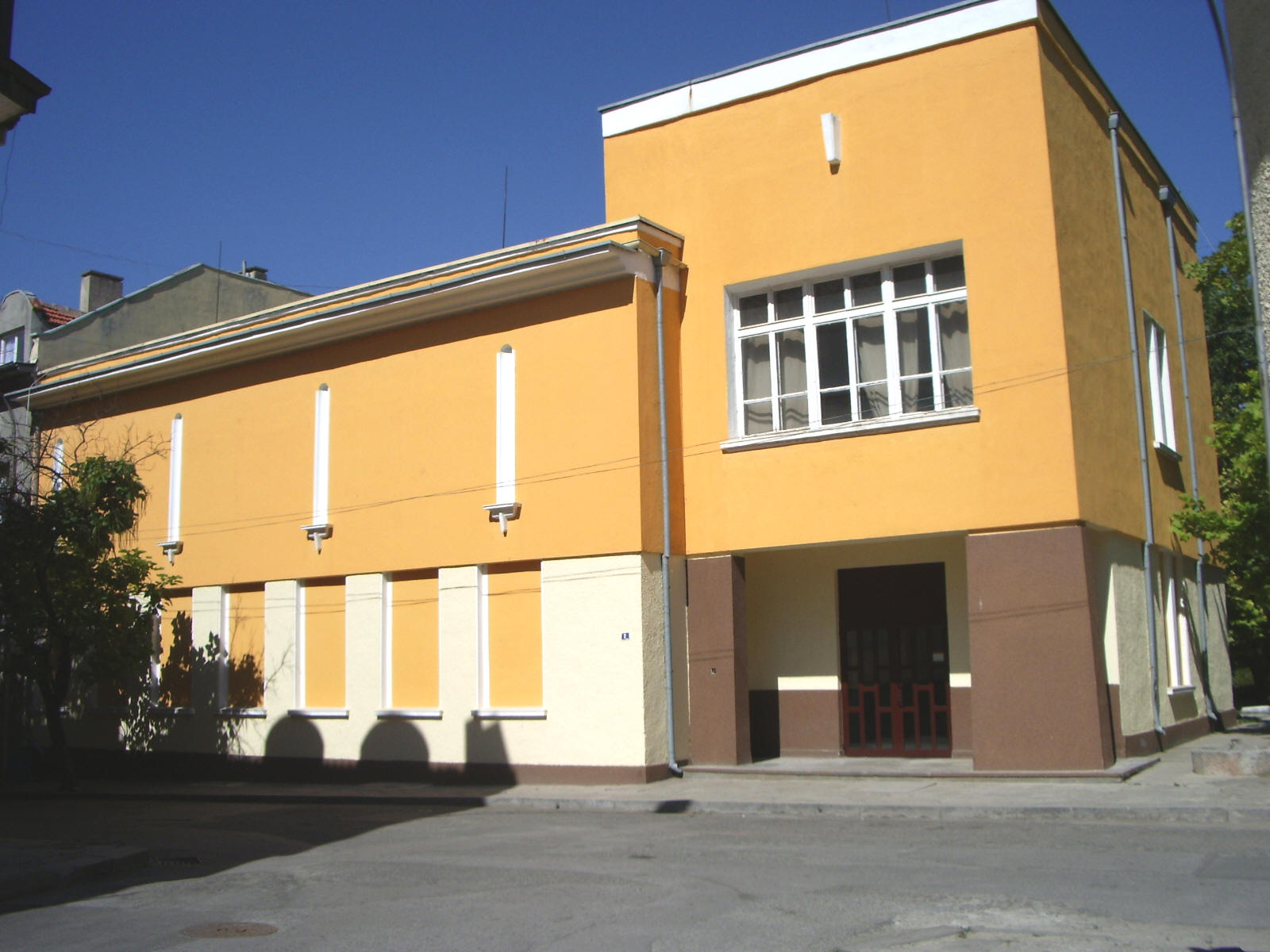 The historical museum of Yambol, Bulgaria